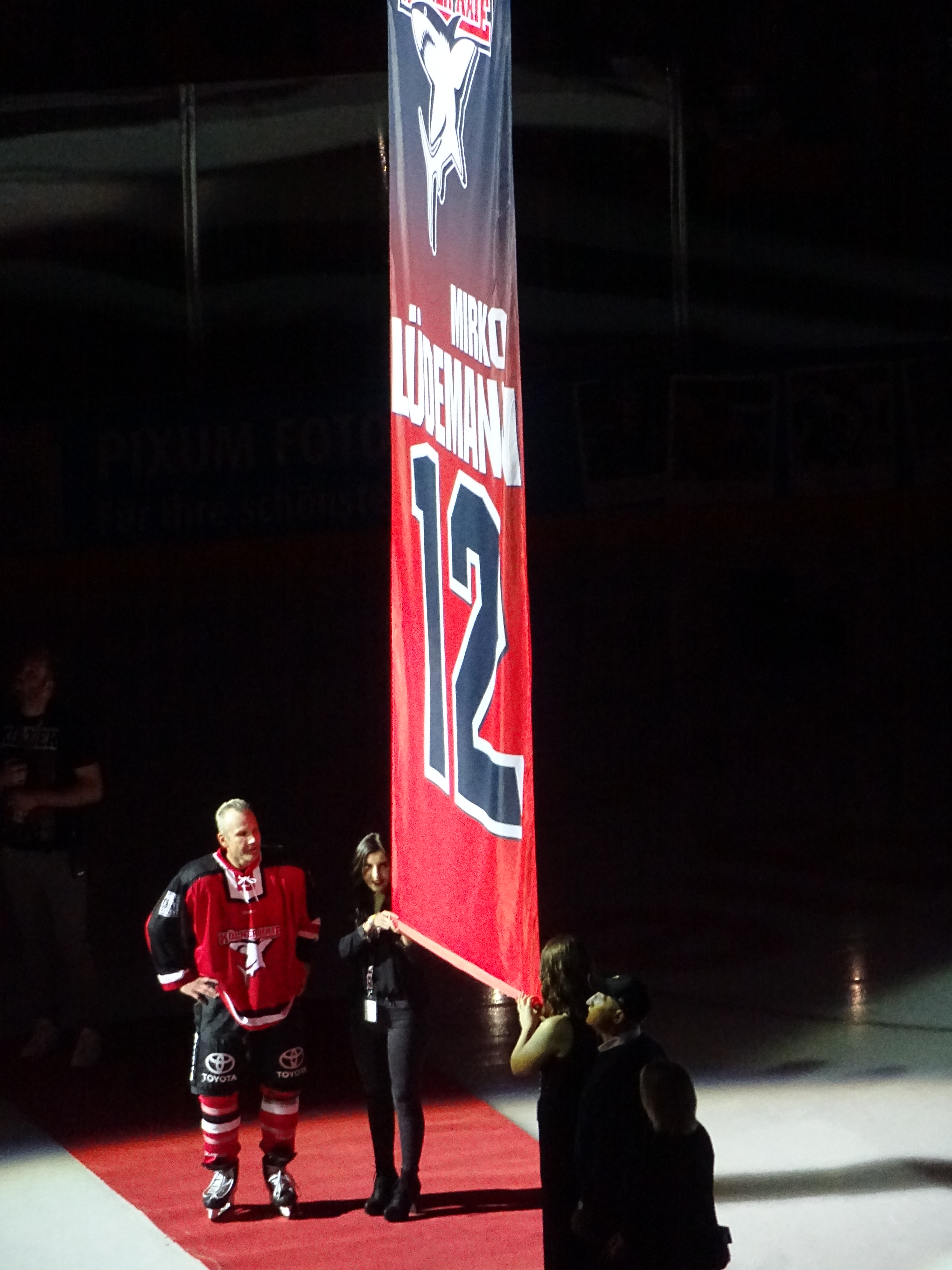 Number 12 of Mirko Lüdemanns gets retired.